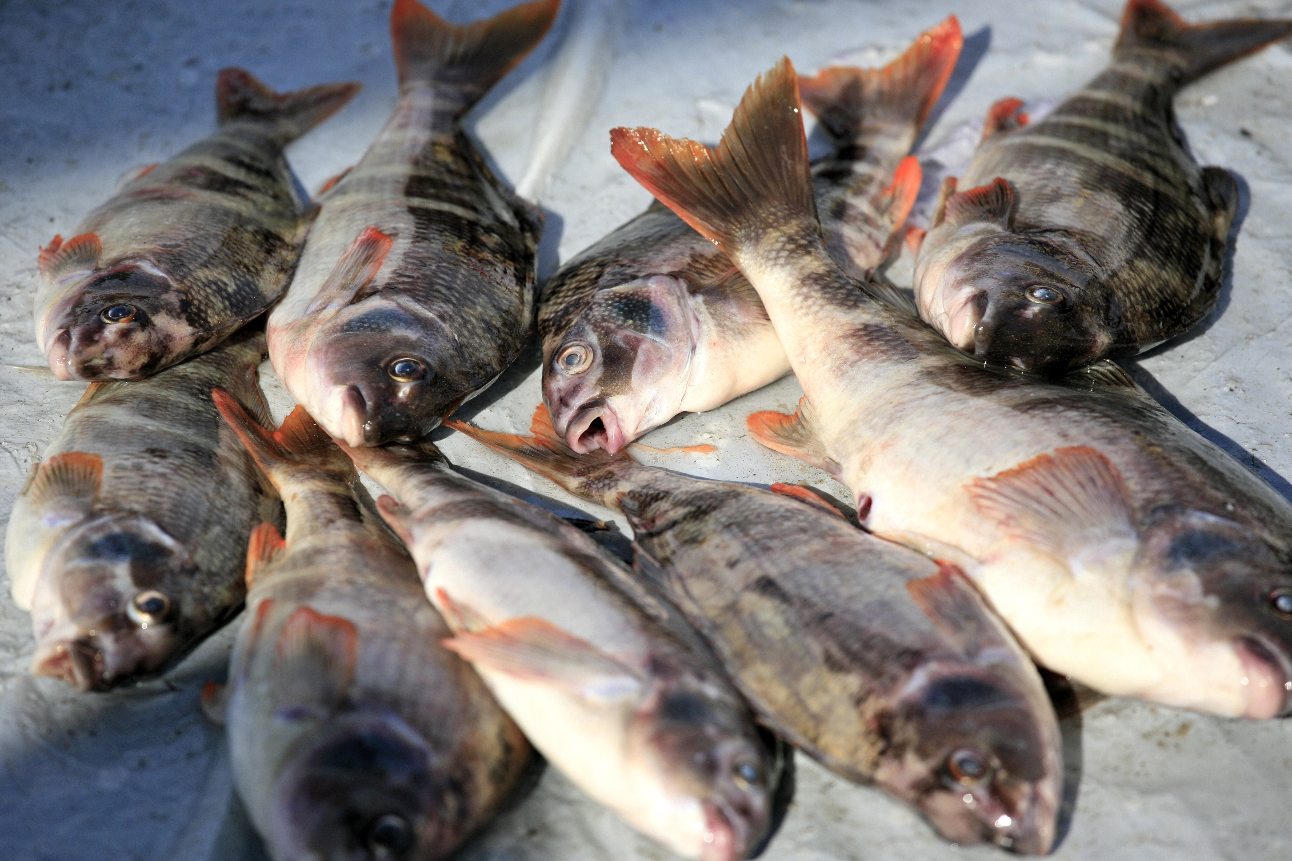 The Last Breath